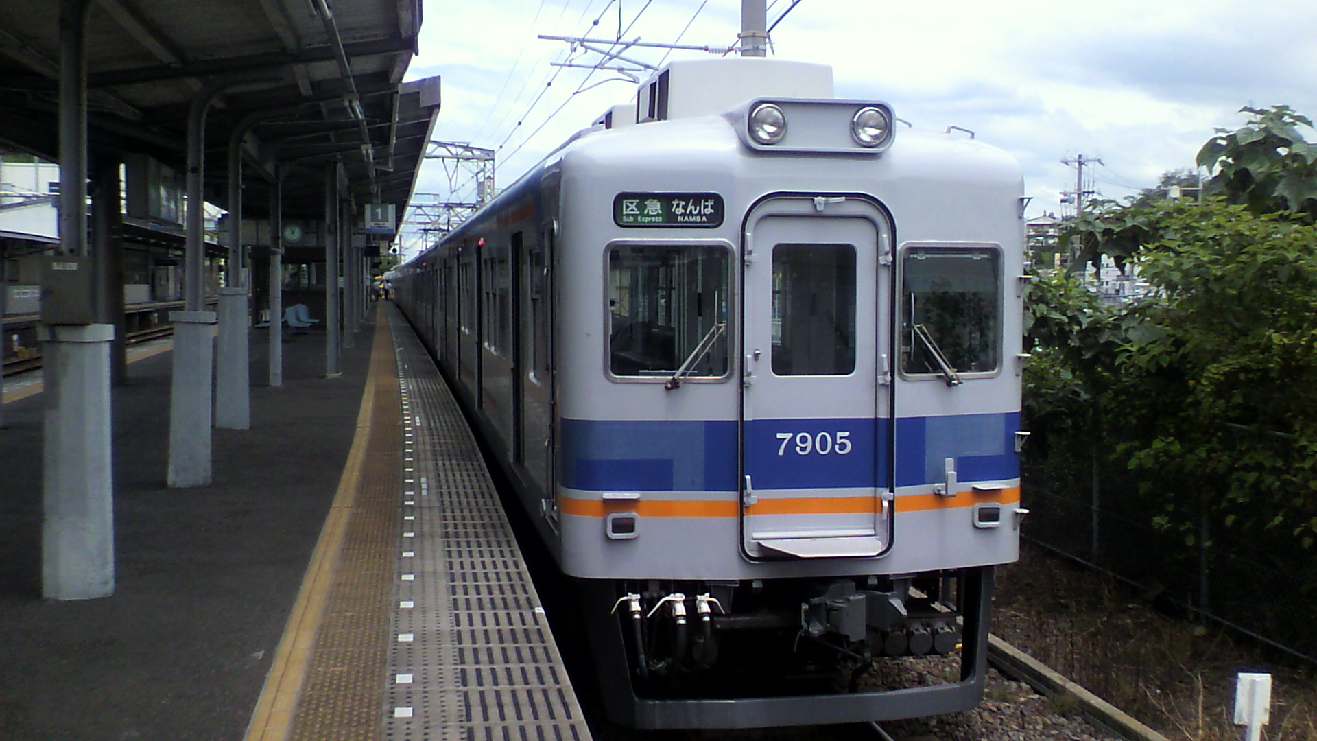 misakikoen